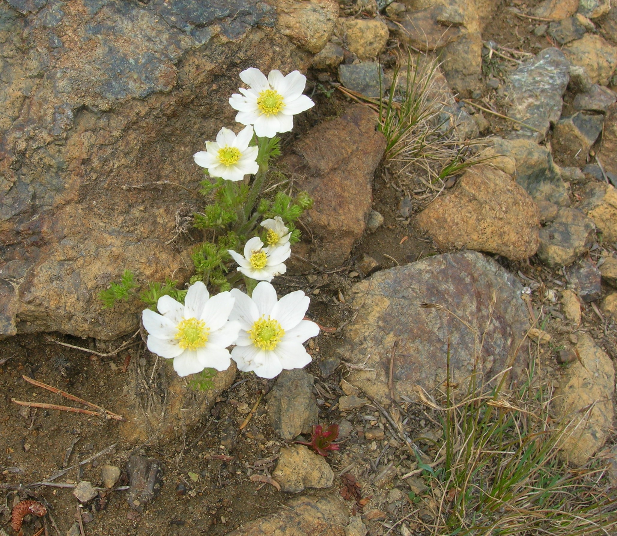 Anemone drummondii Drummond's anemone Ranunculaceae family Iron Peak Trail 1399, Kittitas Co. Washington, USA On serpentine rock and soil on Iron Peak ~5850 feet 9 July 2006 i070906 156